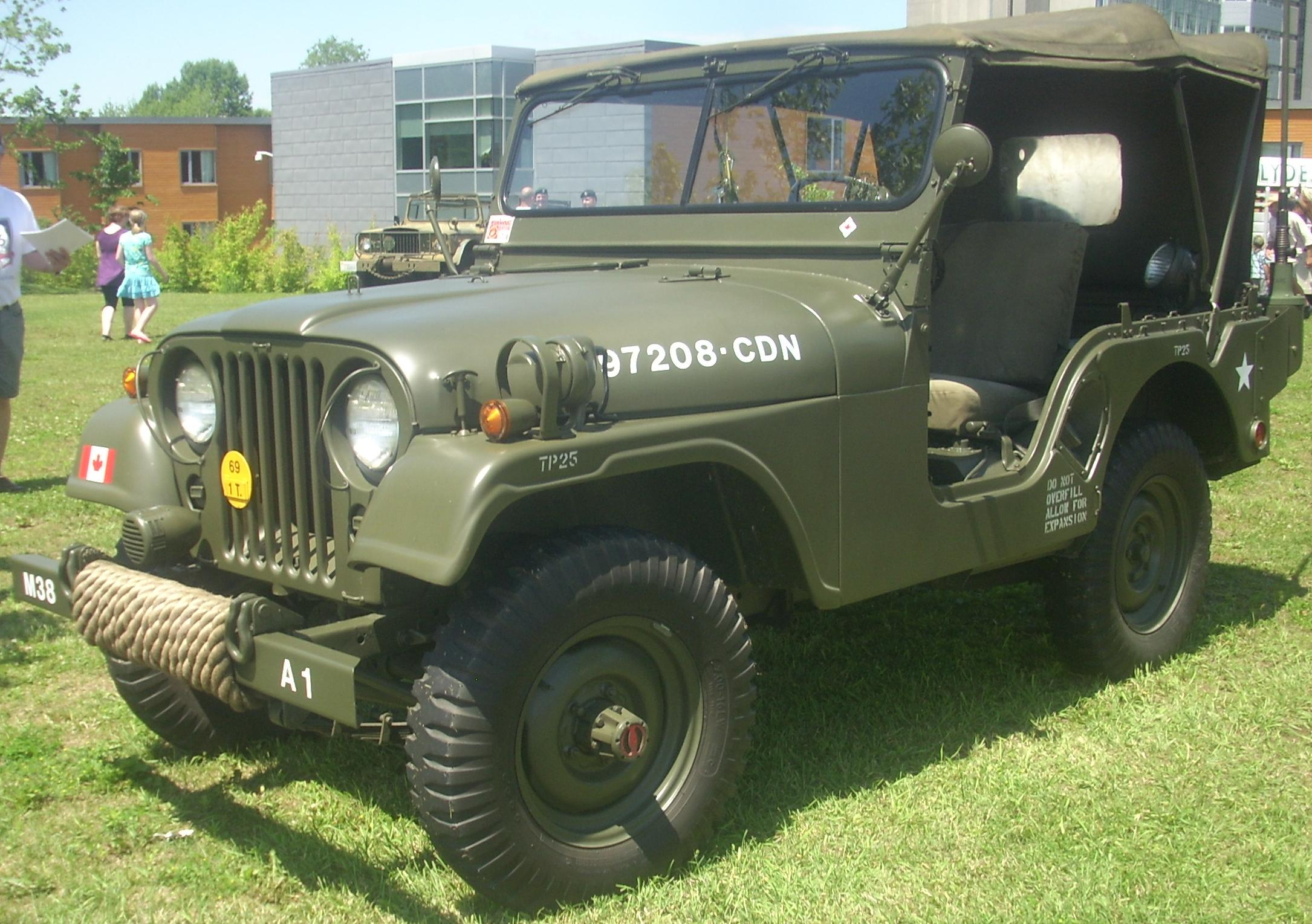 Jeep CJ photographed in Ste. Anne De Bellevue, Quebec, Canada at the 2010 Ste. Anne De Bellevue Veteran's Hospital Auto Show.